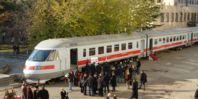 TRains developed in Georgia .... New express trains